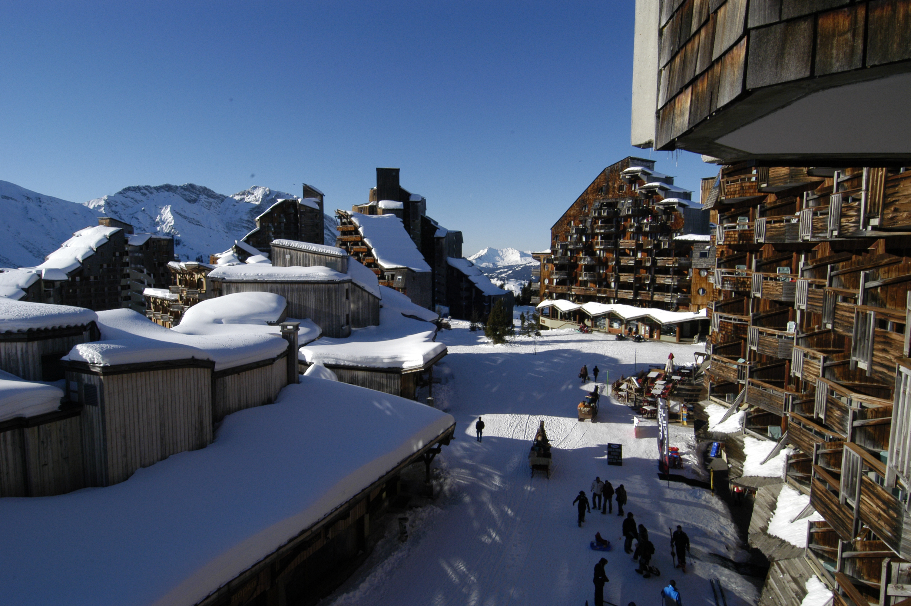 View looking up to Avoriaz from our Balcony2006_01_22_0005.JPG